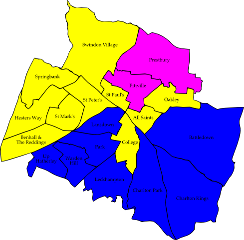 A map of the results of the 2006 Cheltenham Council election. Colour legend by wards won: Liberal Democrats Conservative party People Against Bureaucracy